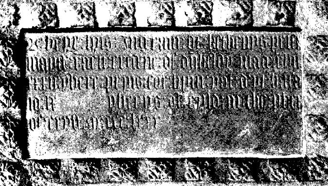 Sketch of the mural monument of Ingram de Ketenis, Archdeacon of Dunkeld and rector of Tealing; found at Tealing parish church, Angus, Scotland.